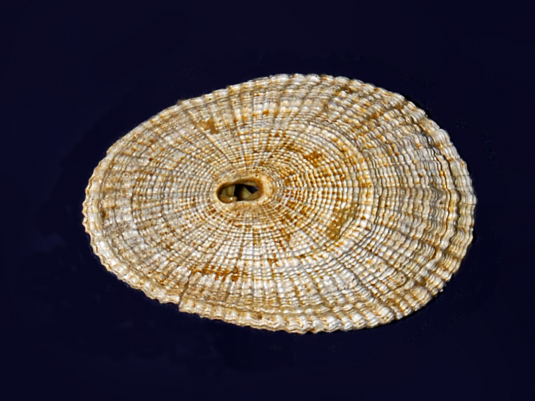 Fossil shell of Diodora italica from Pliocene of Italy, on display at the Museo Paleontologico, Asti